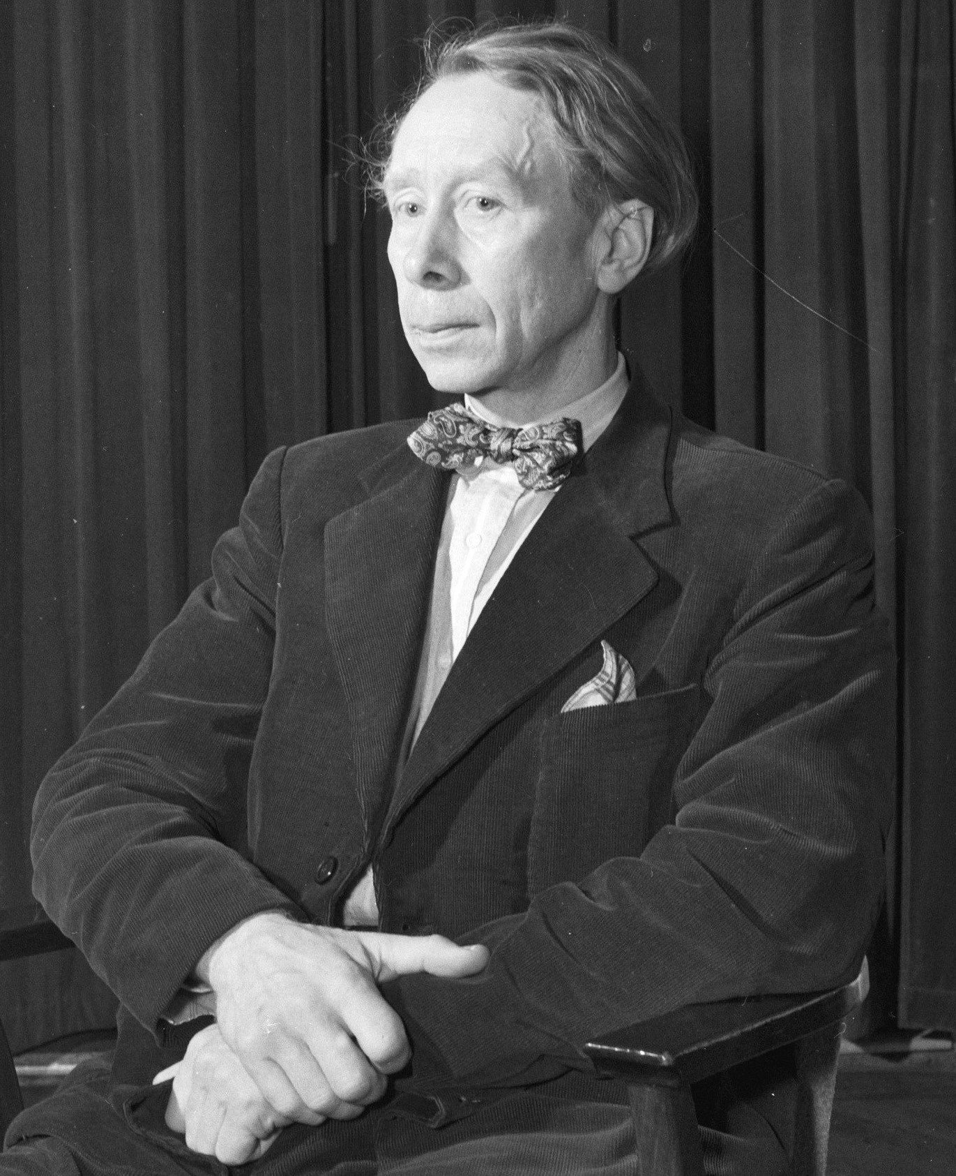 Norwegian composer Harald Sæverud